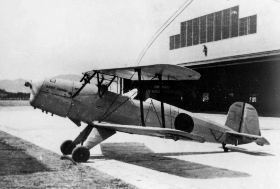 An Imperial Japanese Army Air Force Kokusai Ki-86A (Allied code name "Cypress") in 1945. This plane was a German Bücker Bü 131 Jungmann which was licence-produced in Japan. Approximately 1037 Ki-86s were built and 339 Kyushu K9W1 for the Imperial Japanese Navy.